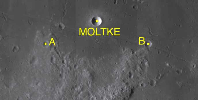 Part of the chart LAC-78 used for the presentation